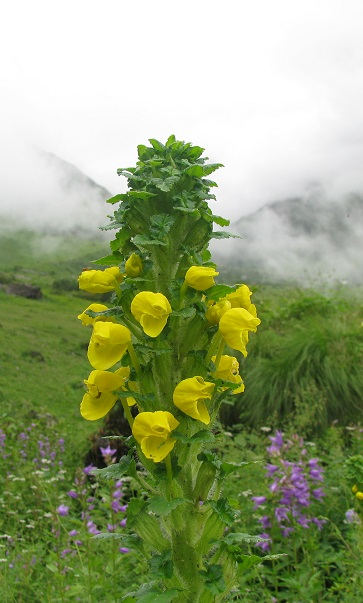 This flower is found in the second half of July in middle part of valley of flowers. Locally it is called as Haldya Phool, More info can be found at